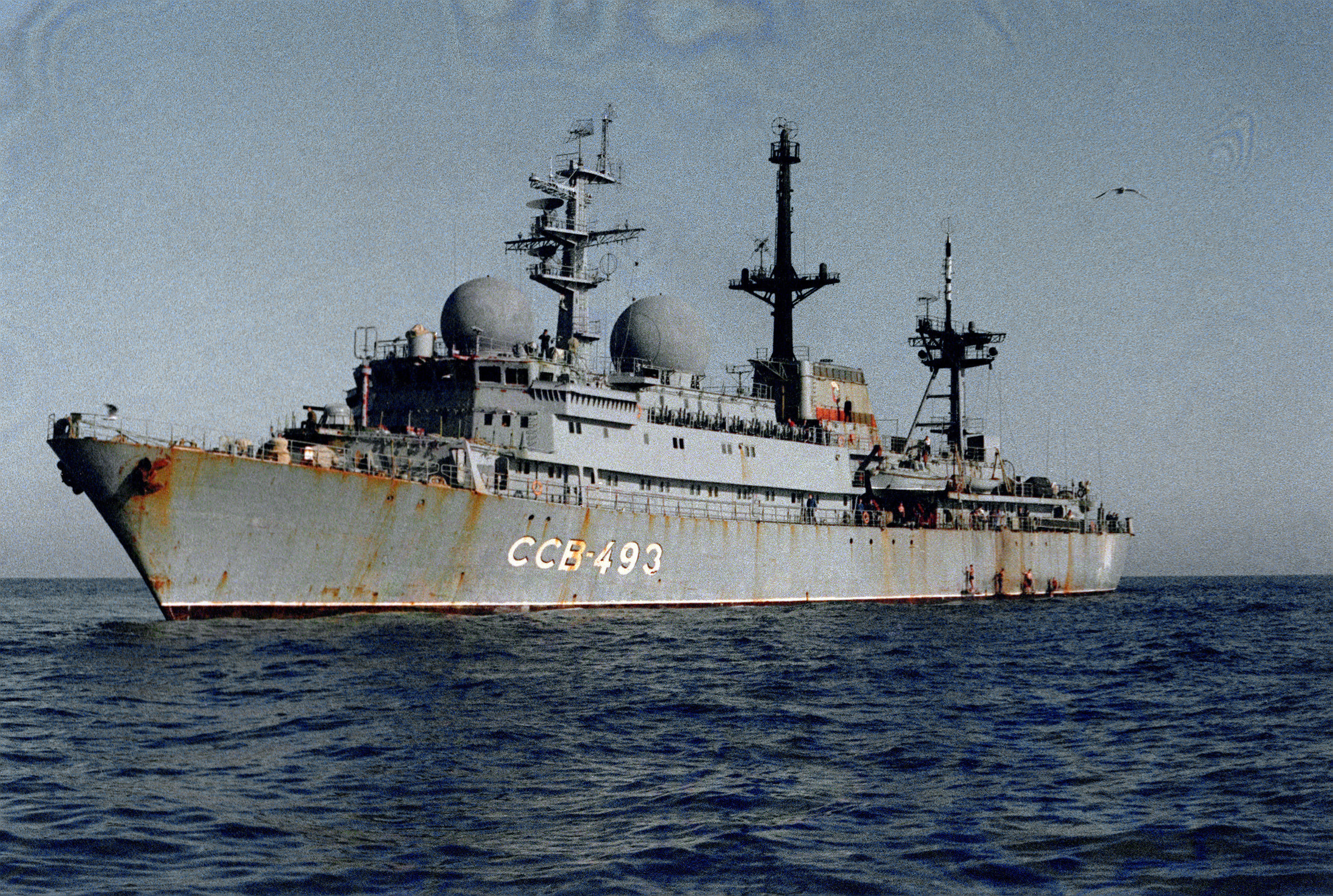 A port bow view of the Balzam Class intelligence collecting ship (AGI) SSV-493 near the Hawaiian Islands in 1991.